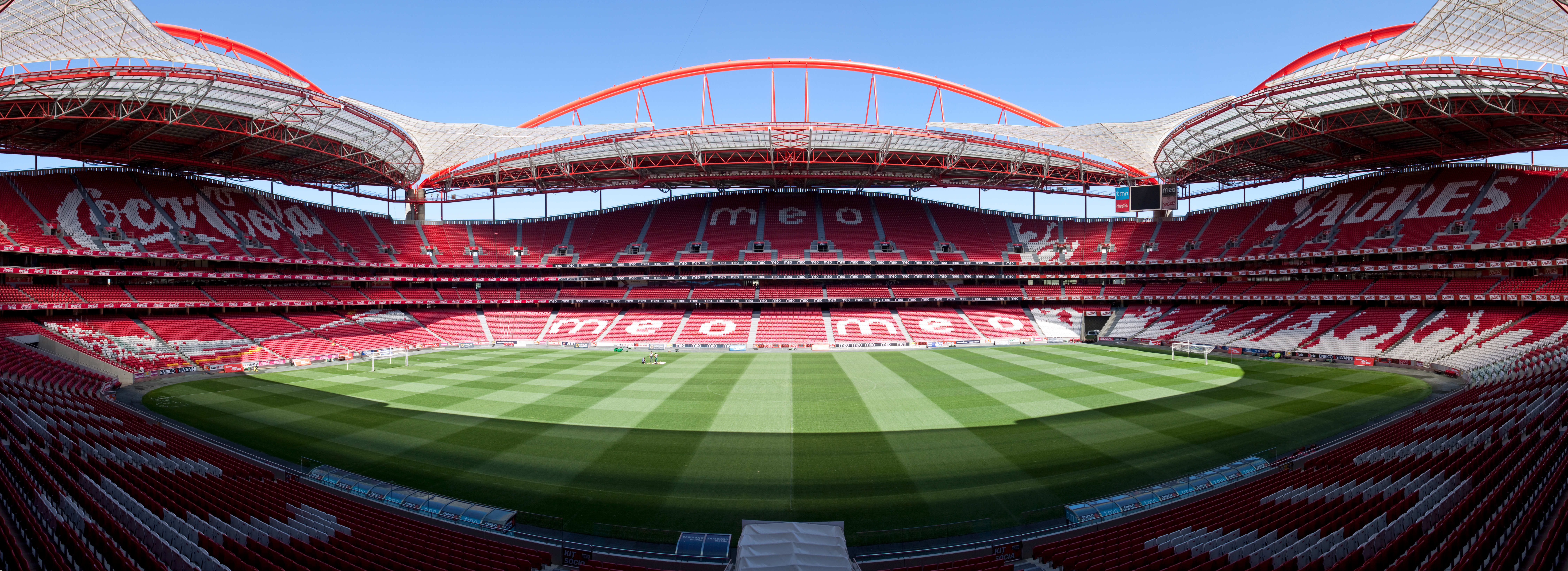 A panorama of the Estádio do Sport Lisboa e Benfica in Lisbon, Portugal.